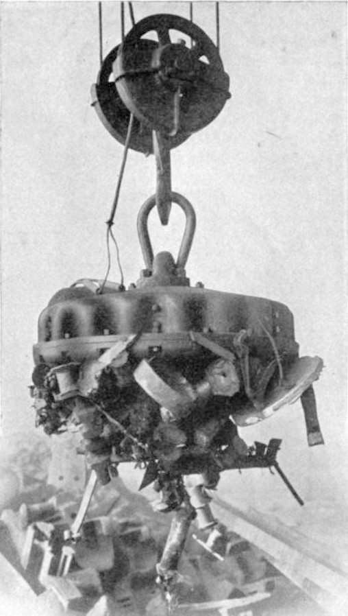 Photo of an industrial electromagnet lifting some scrap iron, from around 1914. The wires supplying the magnet with current can be seen emerging from its top. Alterations to image: removed figure number, cropped image into rectangular shape, brightened.